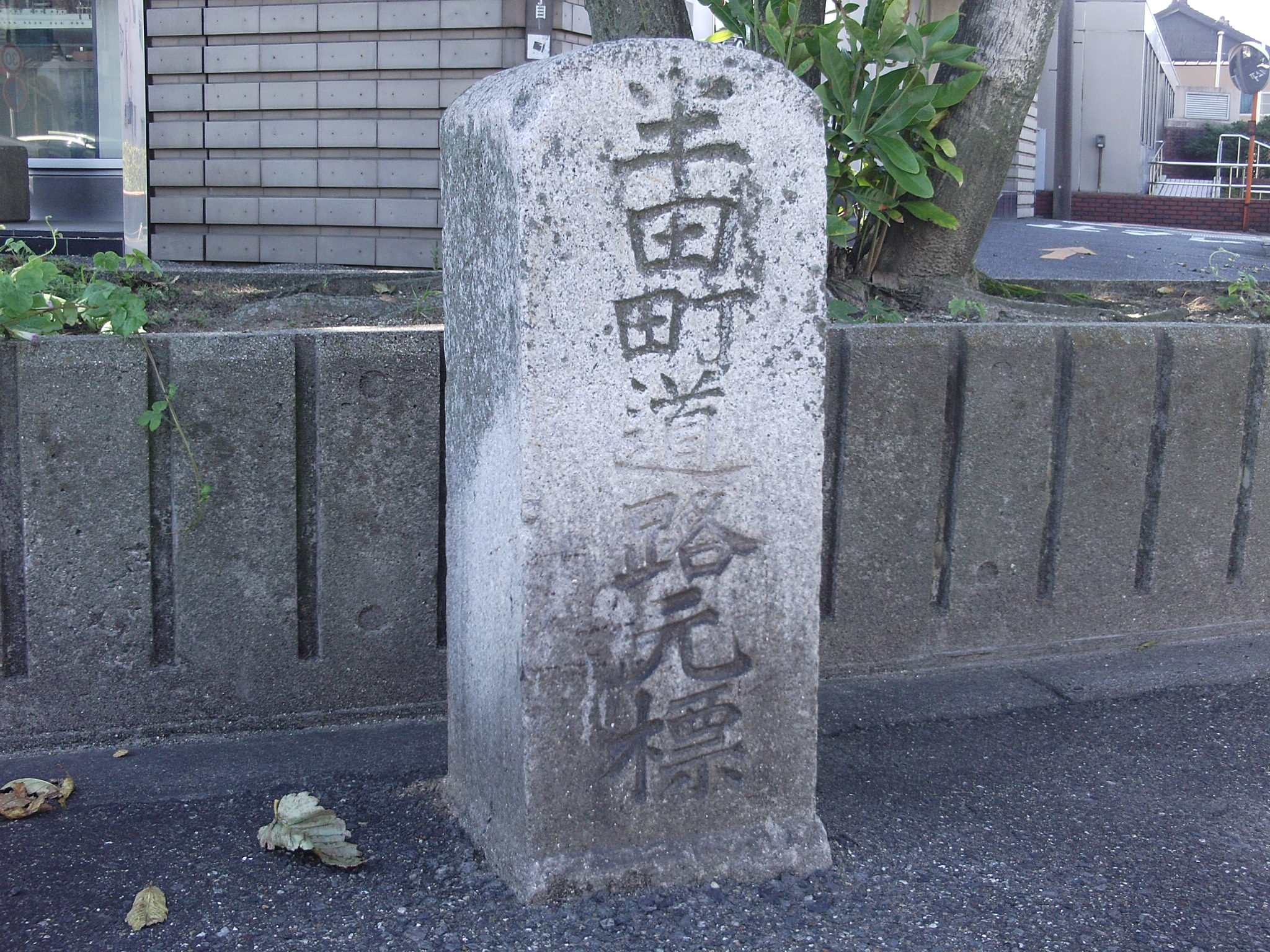 Kilometre zero of Handa town. (Handa town, Chita-gun, Aichi.)